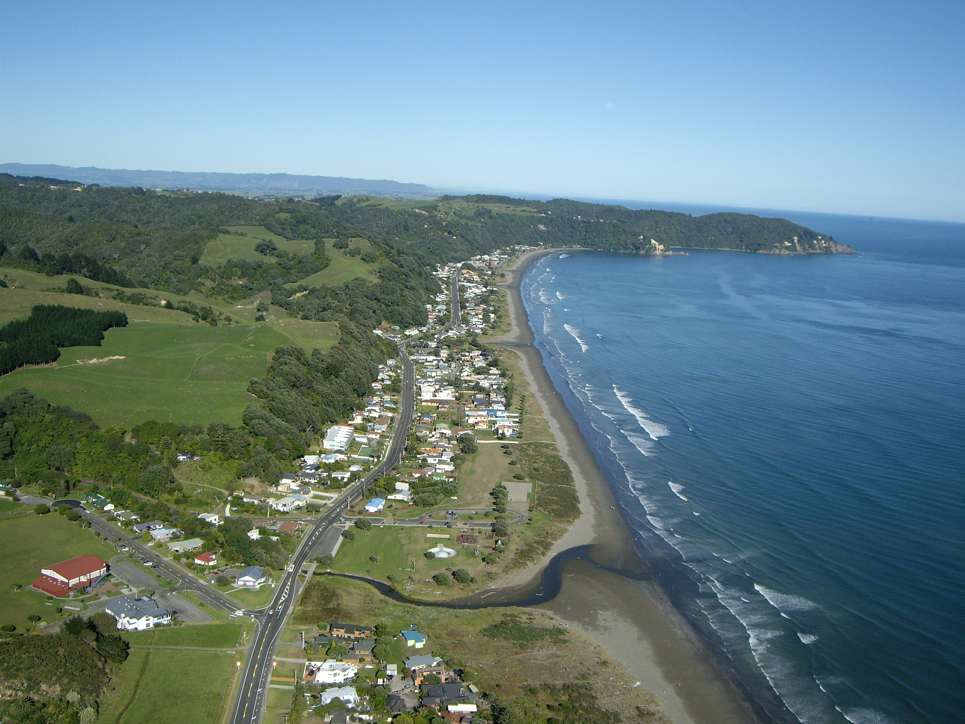 Aerial view of Ohope Beach looking west (towards kohi point)